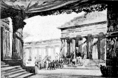 Luigi Cherubini - Medea - Milan 1909 - act 2